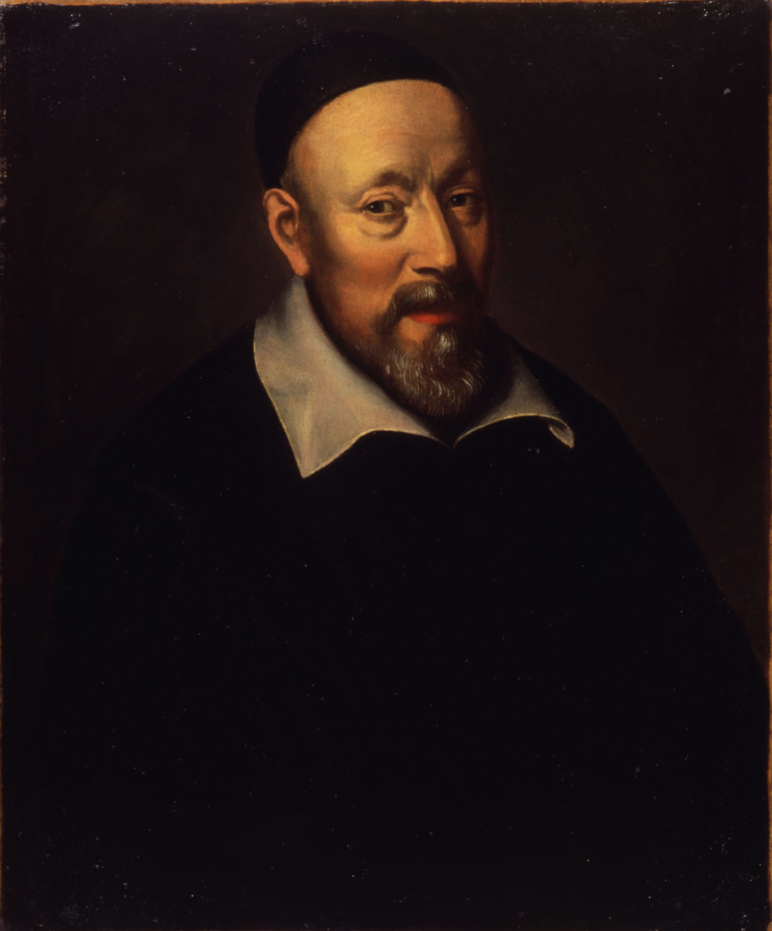 Jean Diodati (1576-1649), théologien genevois, professeur à l'Académie, recteur de 1608 à 1610, a traduit la Bible en français et en italien